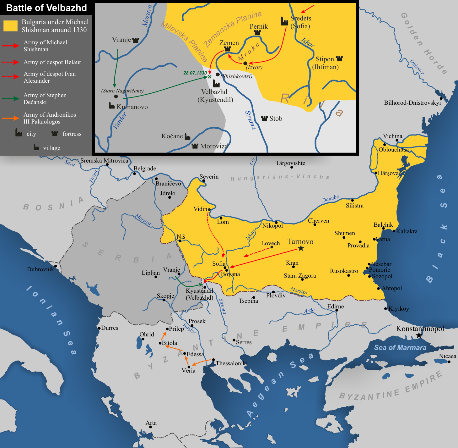 Battle of Velbazhd (1330)